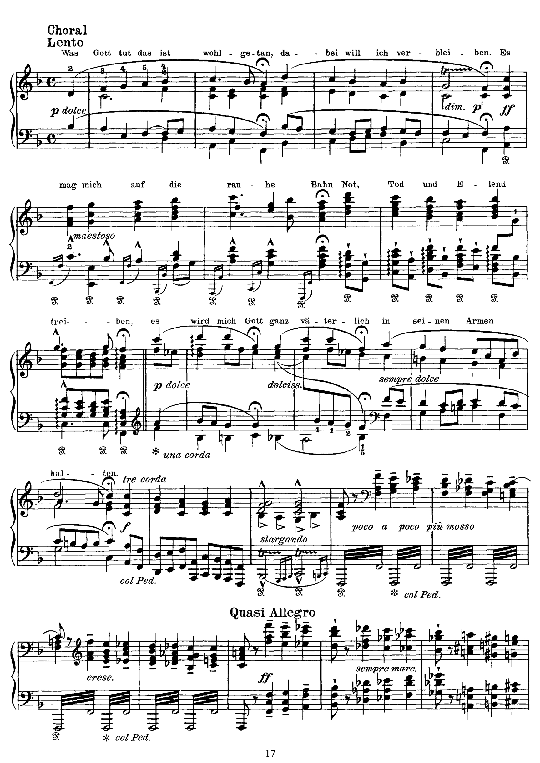 Choral Was Gott tut, das ist Wohlgetan from Liszt's Variations on a theme of J. S. Bach, S180. The theme itself is from Bach's cantata Weinen, klagen, sorgen, zagen, BWV 12.